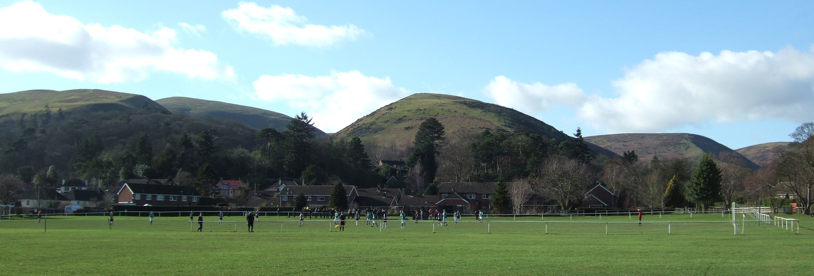 Church Stretton Town v Newport Town - at Russell's Meadow, Church Stretton, on Saturday 25 February 2012